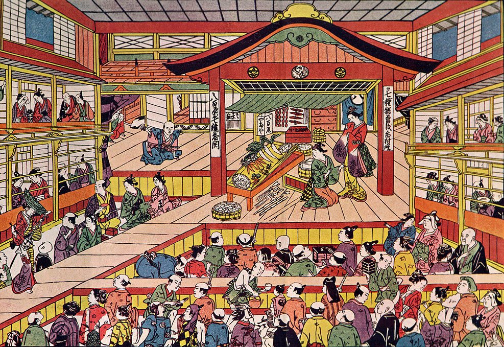 Shibai Ukie by Masanobu Okumura, depicting the Kabuki theater Ichimura-za in its early days.